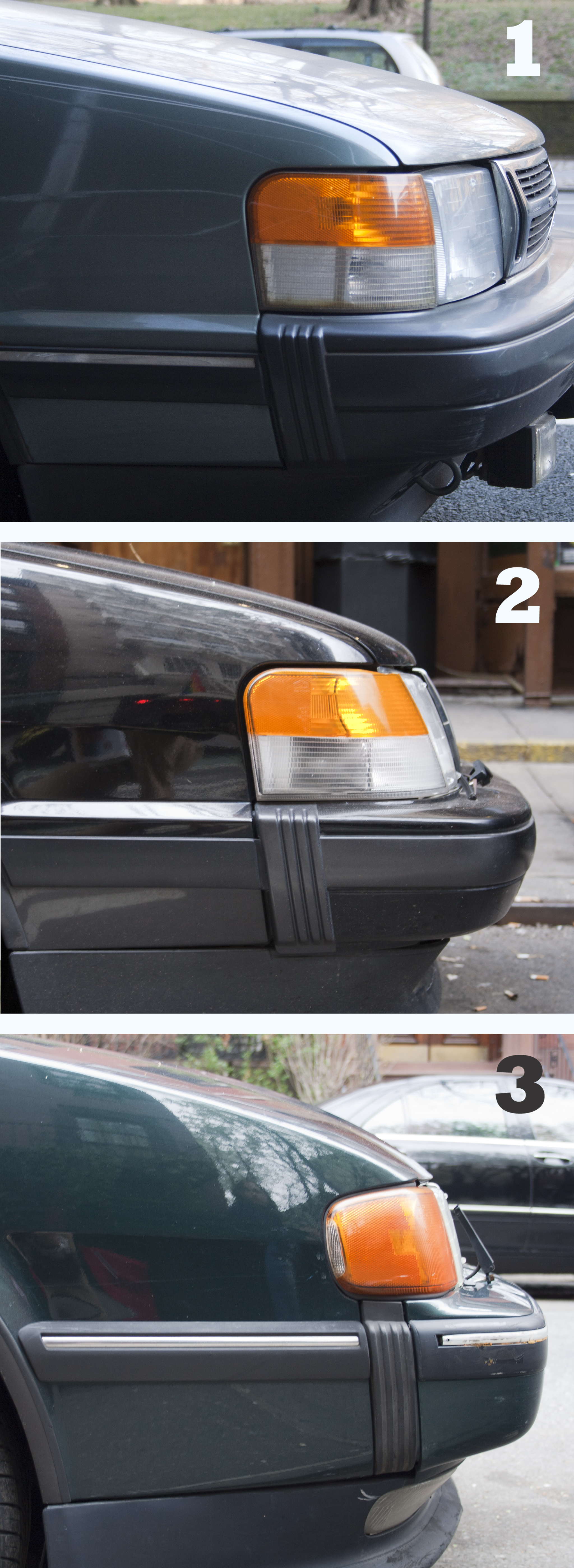 The three different front ends used for the Saab 9000: First the original, then the more sloped version first seen on the 9000CD, and finally the more aerodynamic version introduced with the CS.